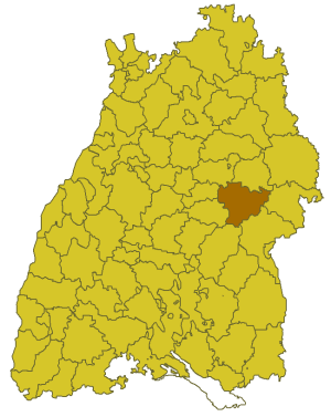 Map of Baden-Württemberg with the county of Göppingen before 1973